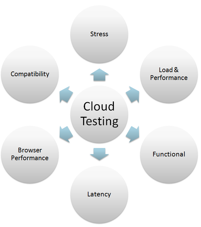 Types of Testing supported by cloud testing